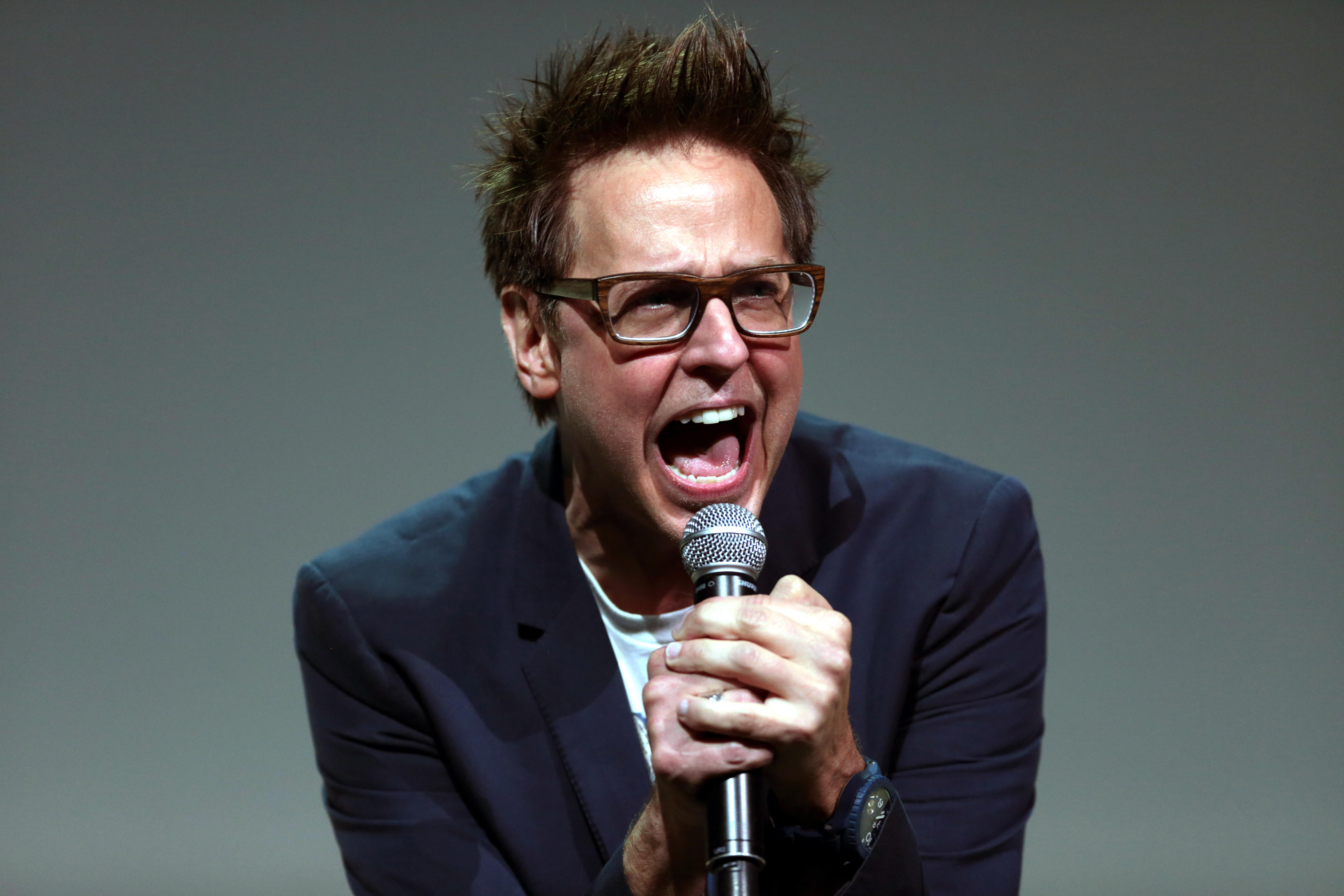 James Gunn speaking at the 2016 San Diego Comic Con International, for "Guardians of the Galaxy Vol. 2", at the San Diego Convention Center in San Diego, California.